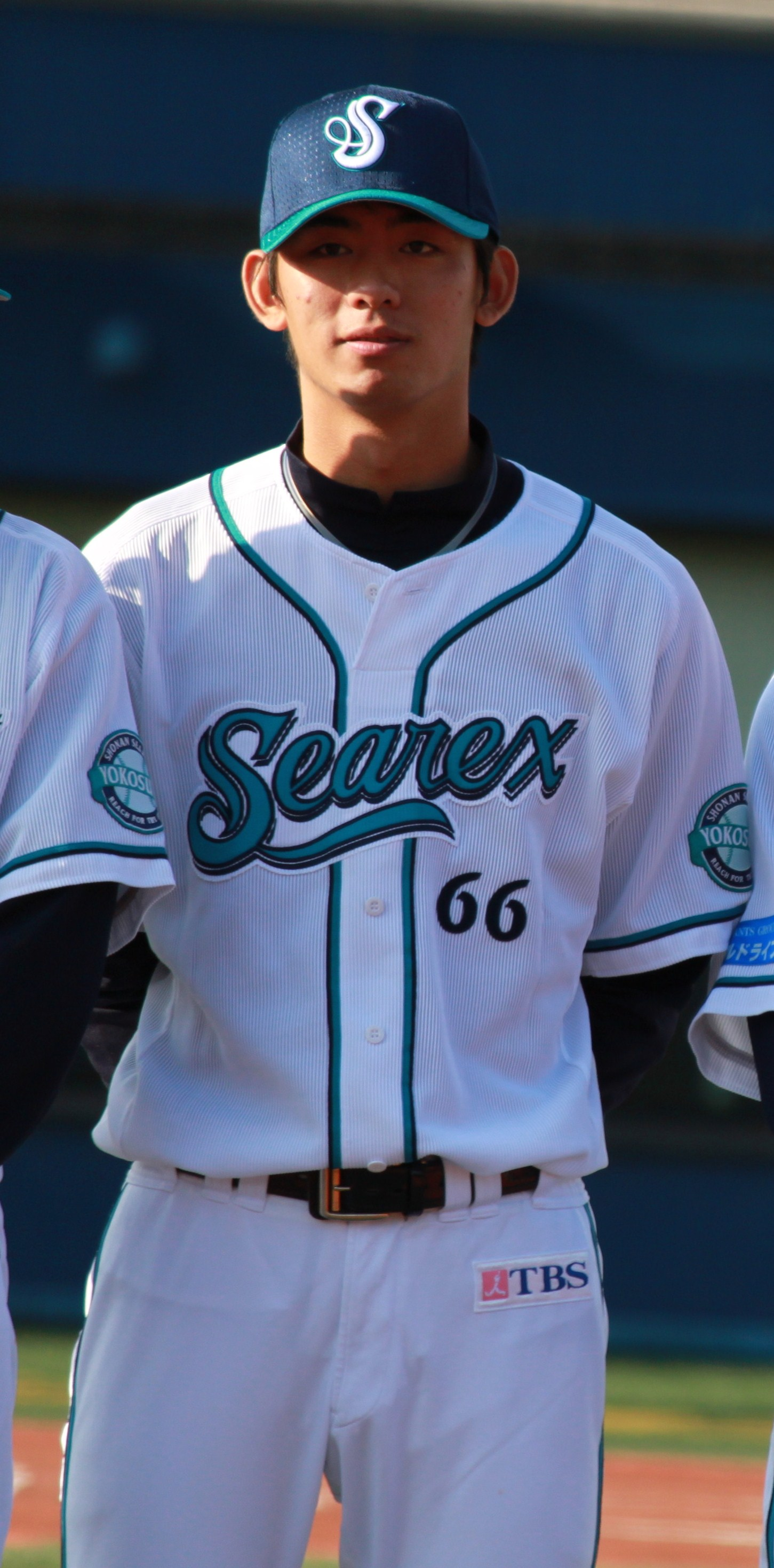 I-Cheng Wang, pitcher of the Shonan Searex, at Yokosuka Stadium.